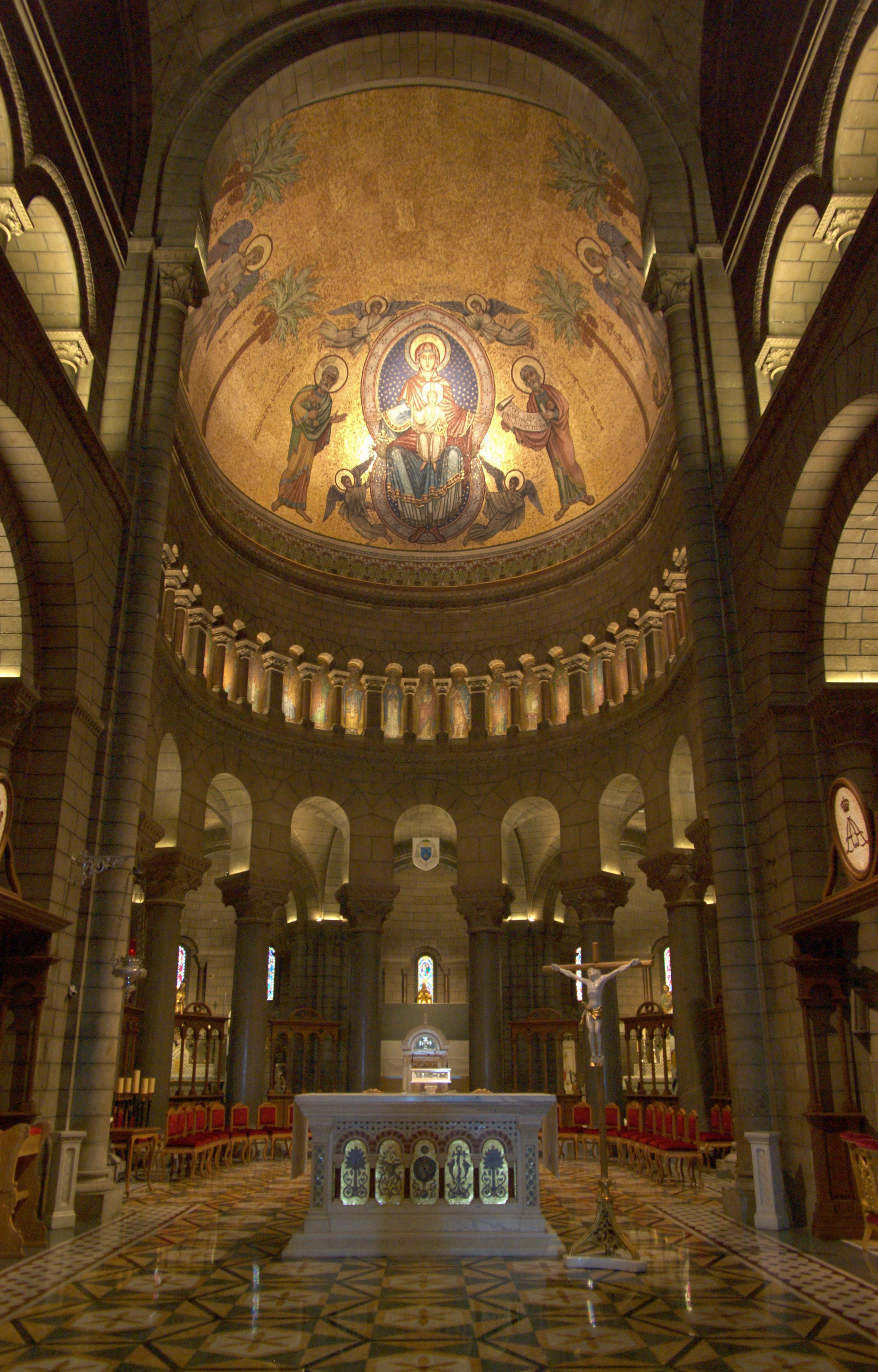 Monaco, cathedral Notre-Dame-Immaculée, altar